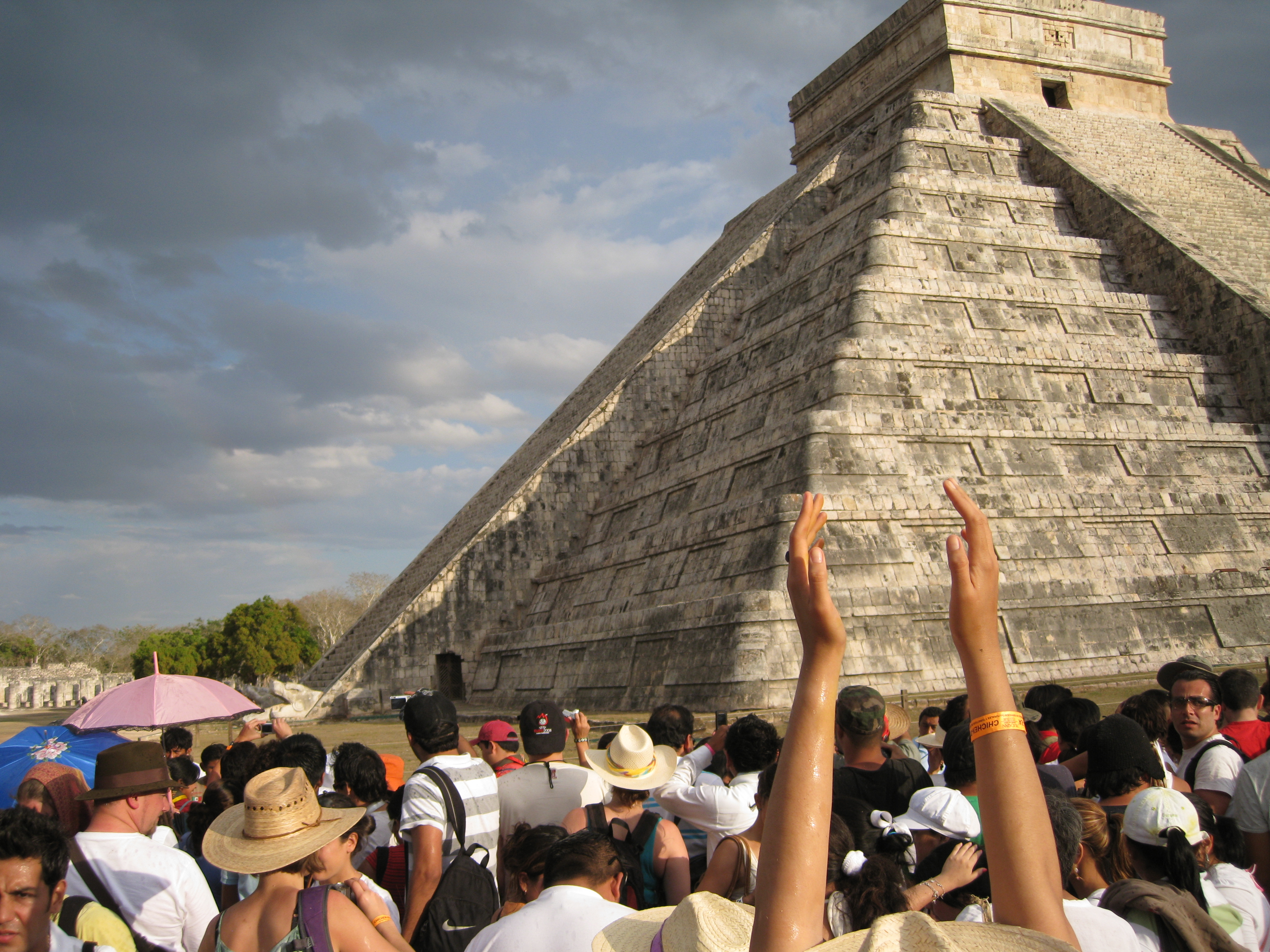 An image of the serpent appearing on the side of the Temple of Kukulcan on the spring equinox at Chichen Itza